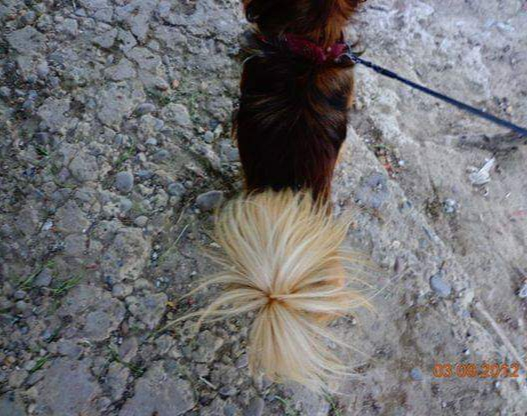 Pekingese Dog